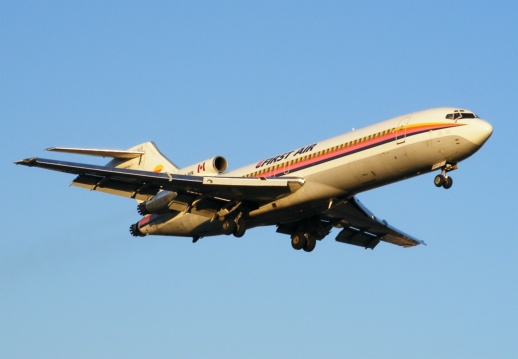 C-GXFA is one of only 2 Boeing 727-200C's in operation in the worlḍ.